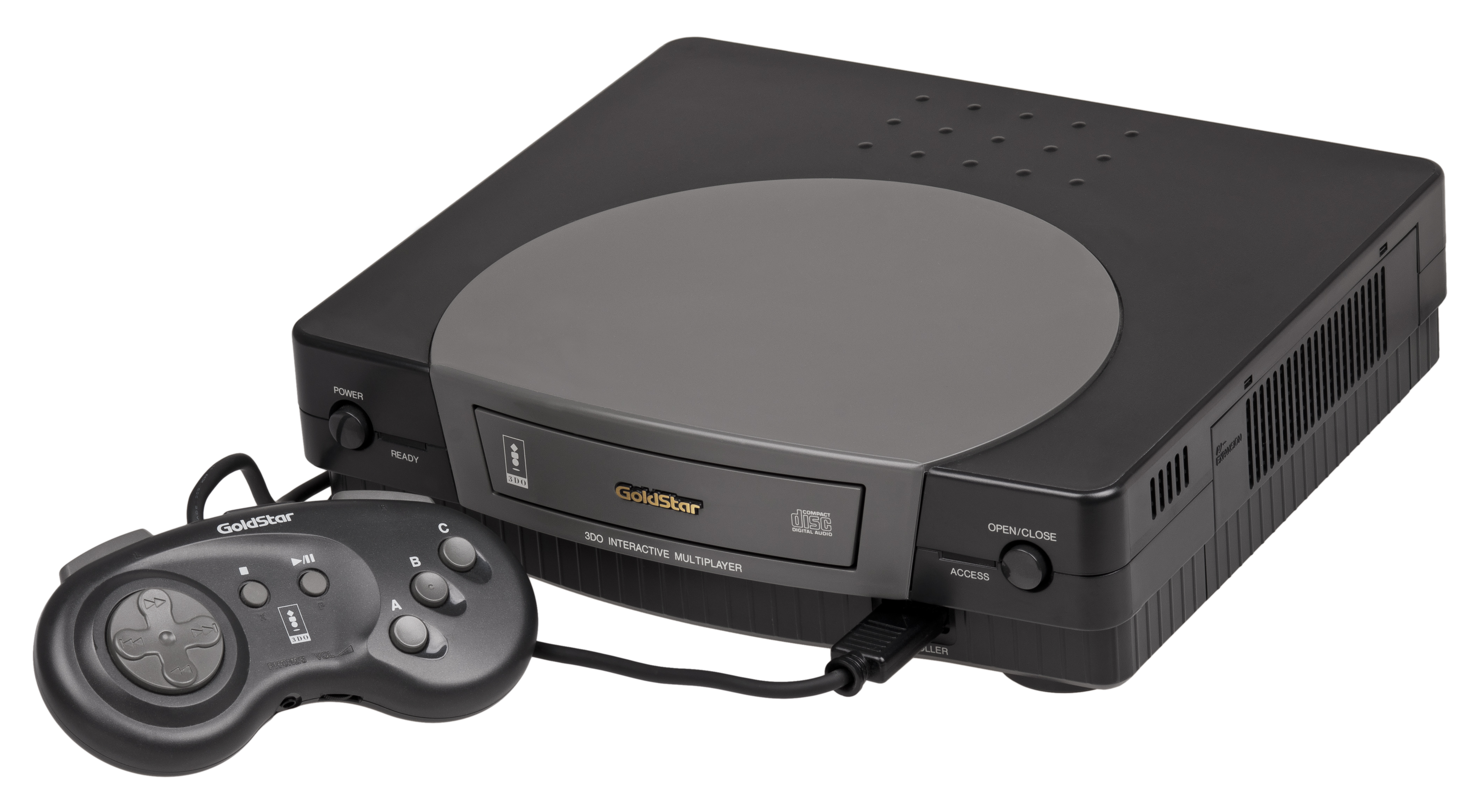 A GoldStar 3DO video game console, shown with controller. This is a model GDO-101M, also known as the 3DO Interactive Multiplayer.